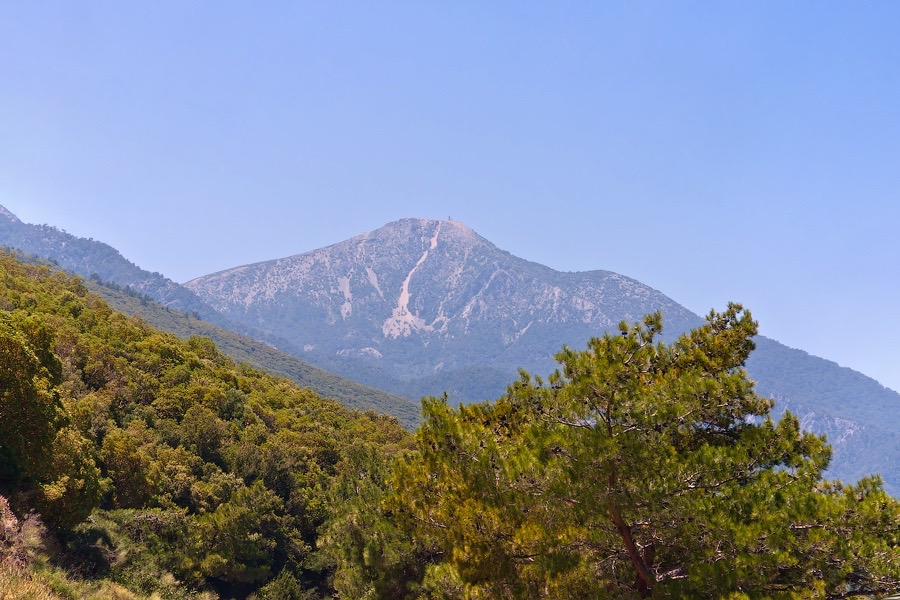 A view of Mount Mycale from Milli Park